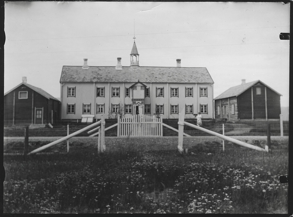 Altagård or Altagården in Alta, Finnmark in Norway. Built ca.1740, burnt down during World War II in 1945. i forb. Rebuilt after the war.